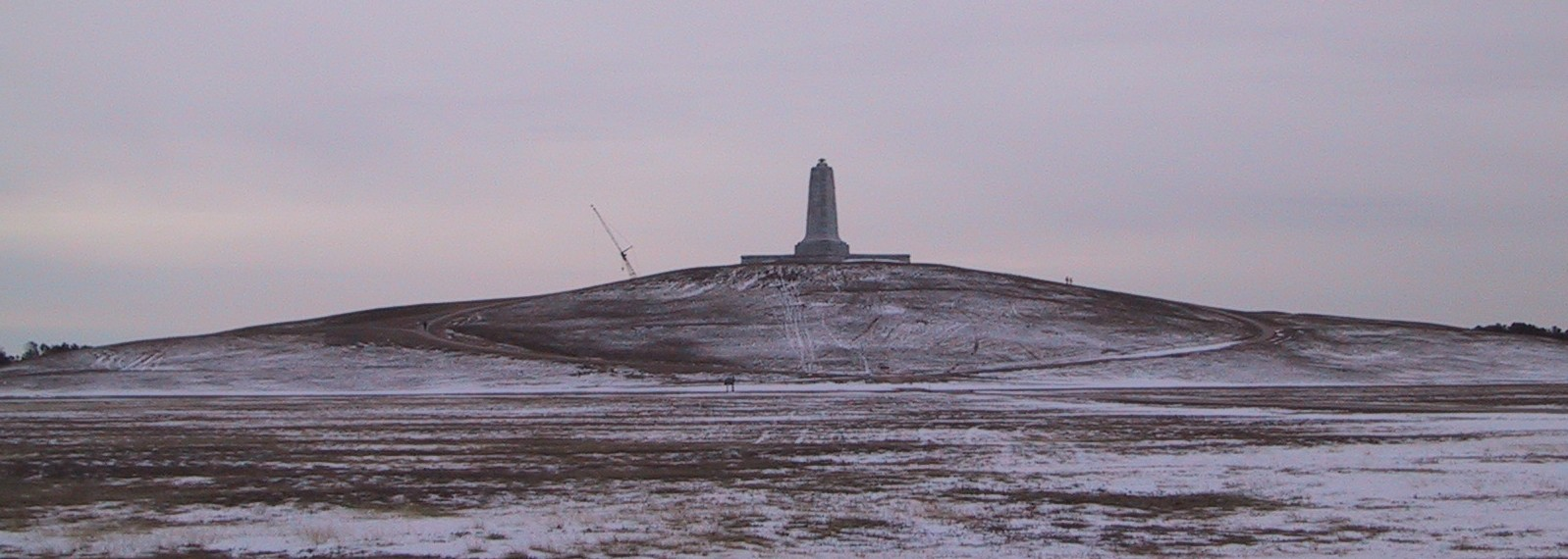 Wright Brothers Memorial Tower on Kill Devil Hill dune. Wright Brothers National Memorial, Kill Devil Hills, North Carolina, USA.